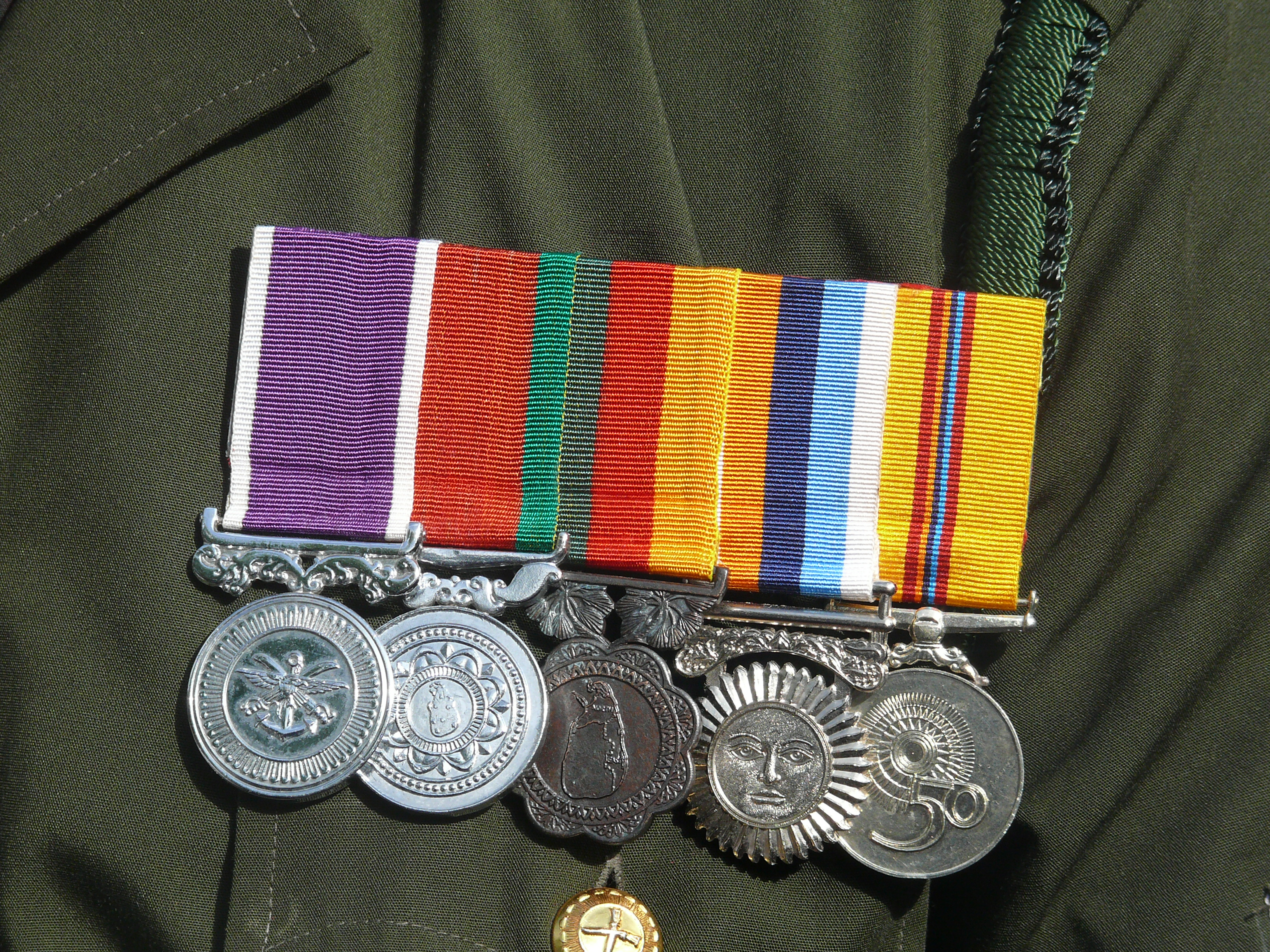 A set of medals worn on a Sri Lanka Army uniform. From left: Desha Putra Sammanaya, Purna Bhumi Padakkama, North and East Operations Medal, Riviresa Campaign Services Medal and 50th Independence Anniversary Commemoration Medal